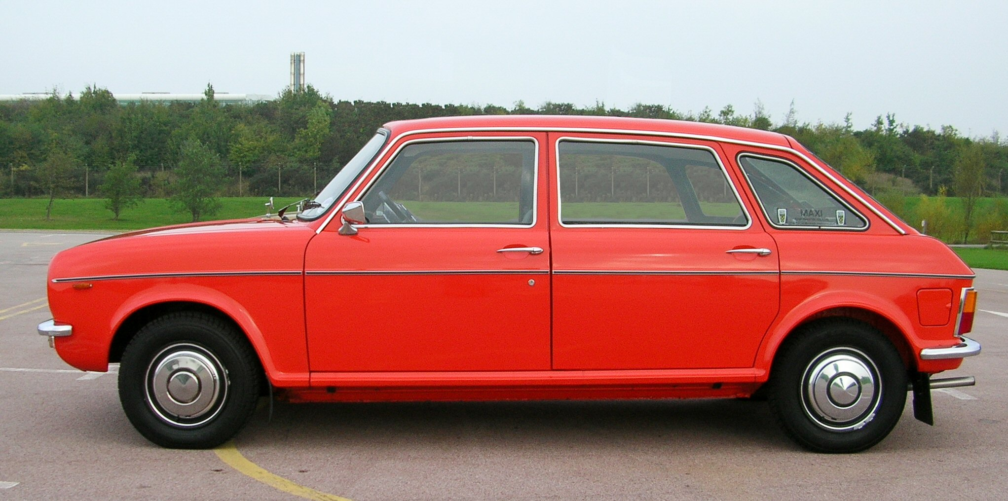 A 1980 Austin Maxi L. Photographed at the Alec Issigonis centenary rally at the Heritage Motor Centre, Gaydon, UK.